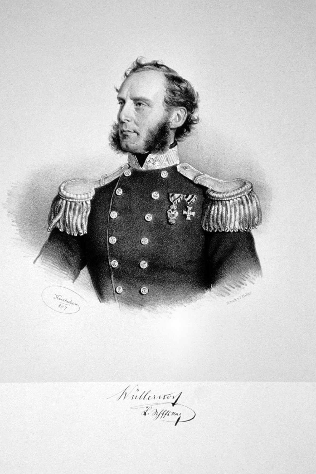 Bernhard von Wüllerstorf-Urbair (1816-1883), Austrian Vice-Admiral, Imperial Minister of Trade in Austrian Empire; captain of SMS Novara (1850) during the Novara Expedition.